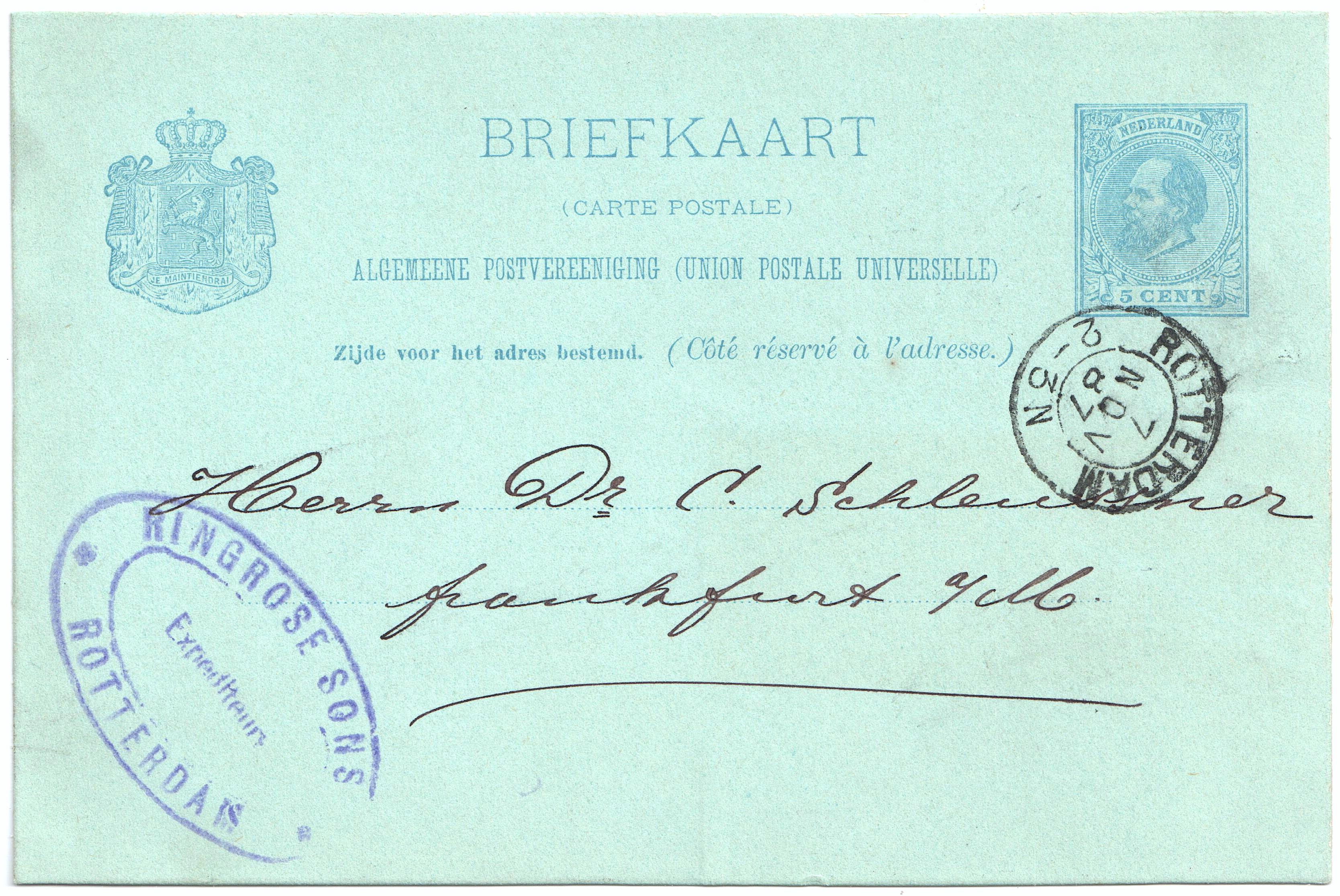 Netherlands 1887-11-07 5c postal card Rotterdam-Frankfurt G27. This card was issued from ca. 1886.